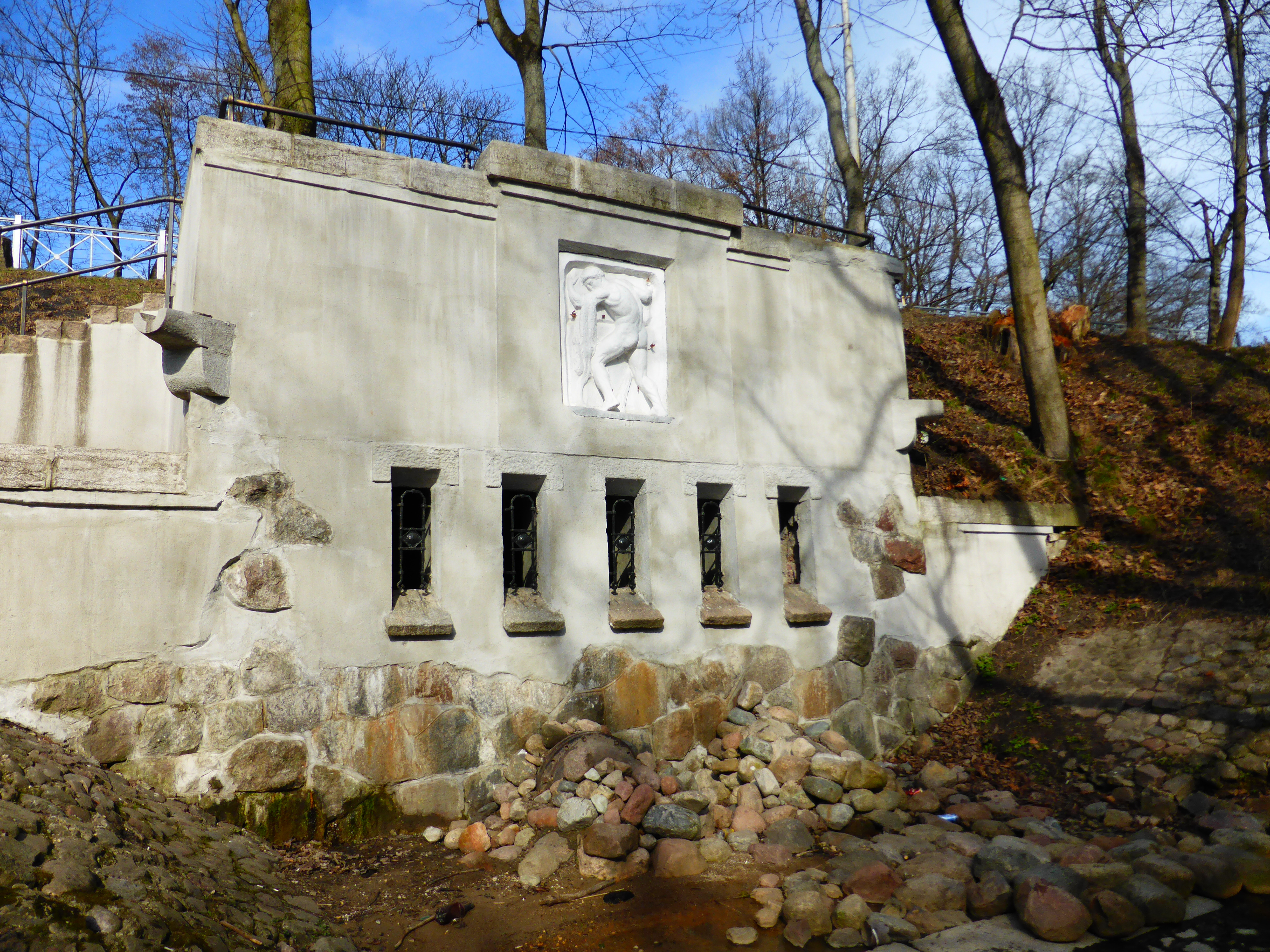 The relief of Hercules